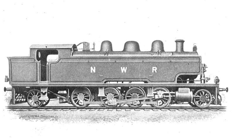 Under the "Roof of the World." Tank Engine for service in the Bolan Pass, North Western Railway of India.